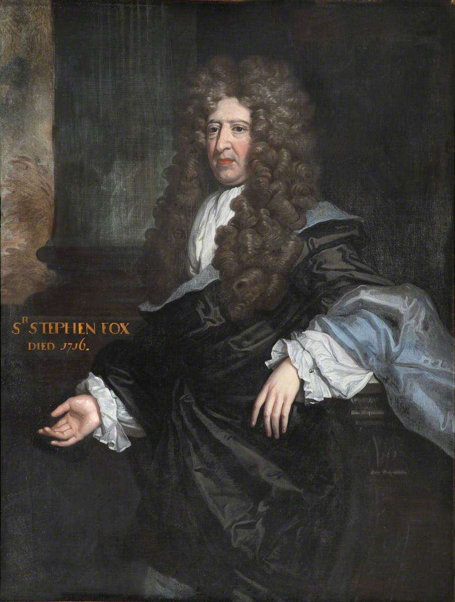 Portrait of Sir Stephen Fox (1627–1716), standing, at three-quarter-length, inscribed centre left with identity of the sitter.